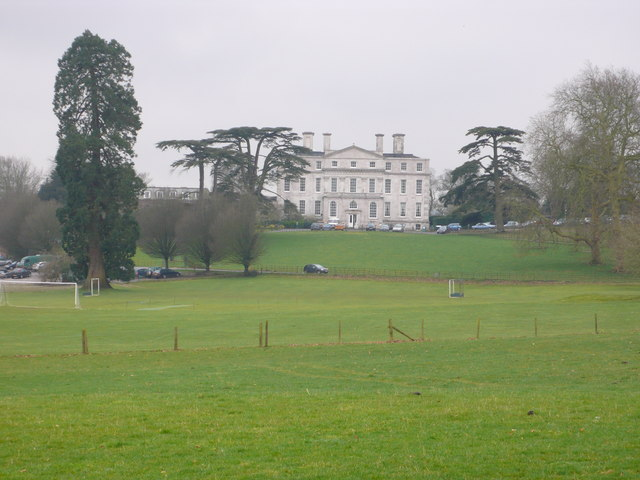 Kingston Maurward House This is the view from the north side from close to the old roman road.